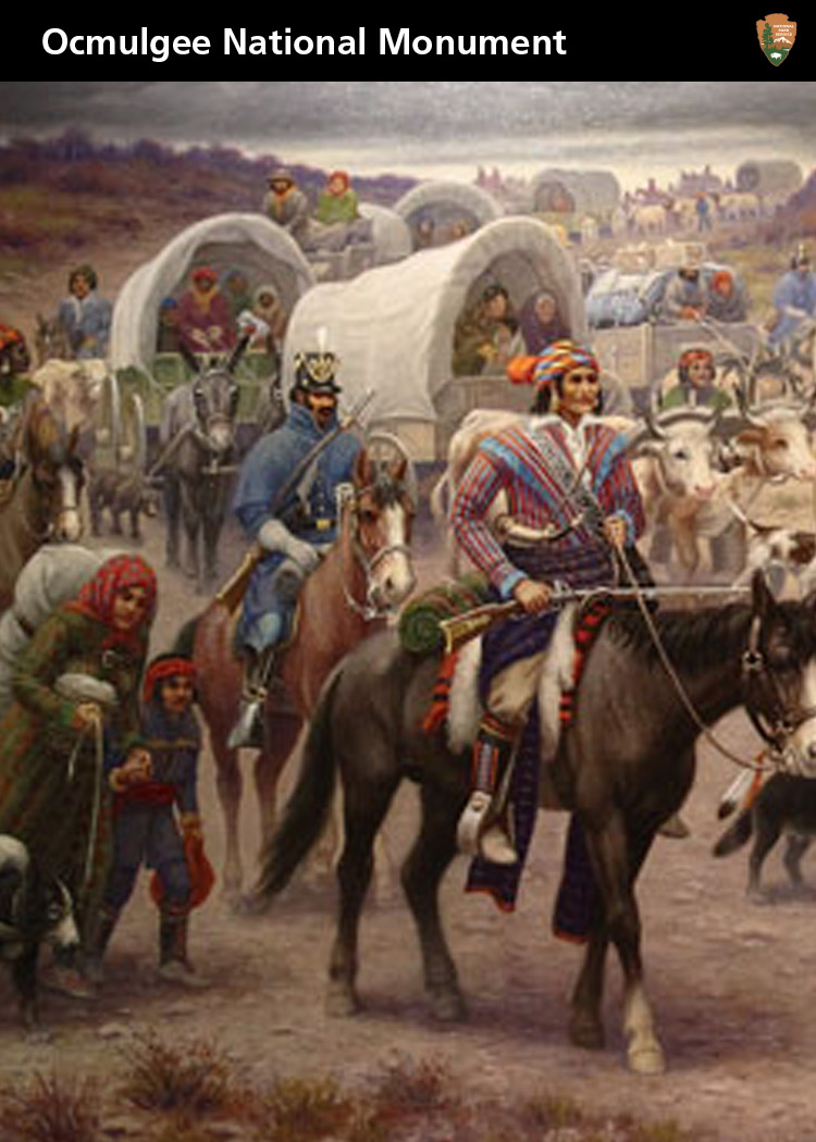 After decades of war with the US and many broken treaties, the Creek War of 1836 ended. Over 14,000 Creek men, women, and children made the agonizing three month journey to Oklahoma over 1,200 miles over land and water taking only what they could carry. Over 3,500 of them died along the way.